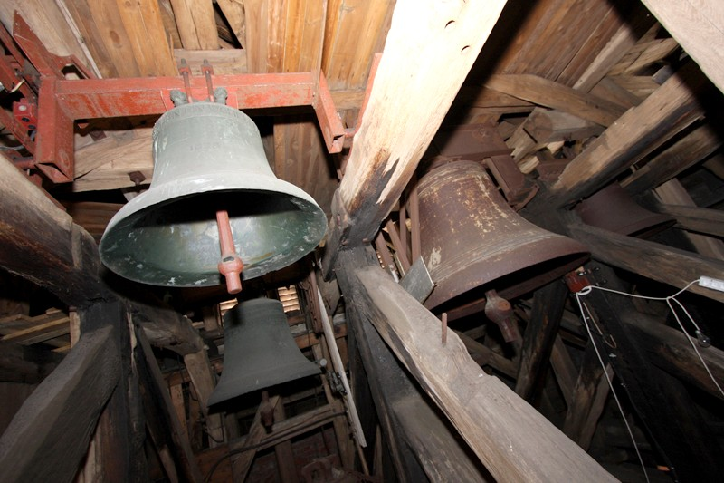 The bells of StMary's church in Gryfice (Poland)